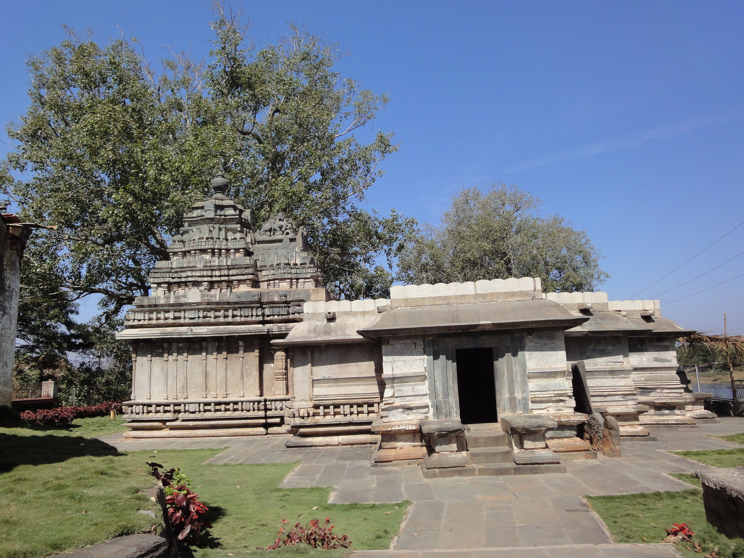 Rameshwara Temple